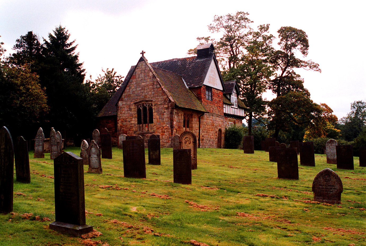 Blue Bell Inn and All Saints Church Dale Abbey